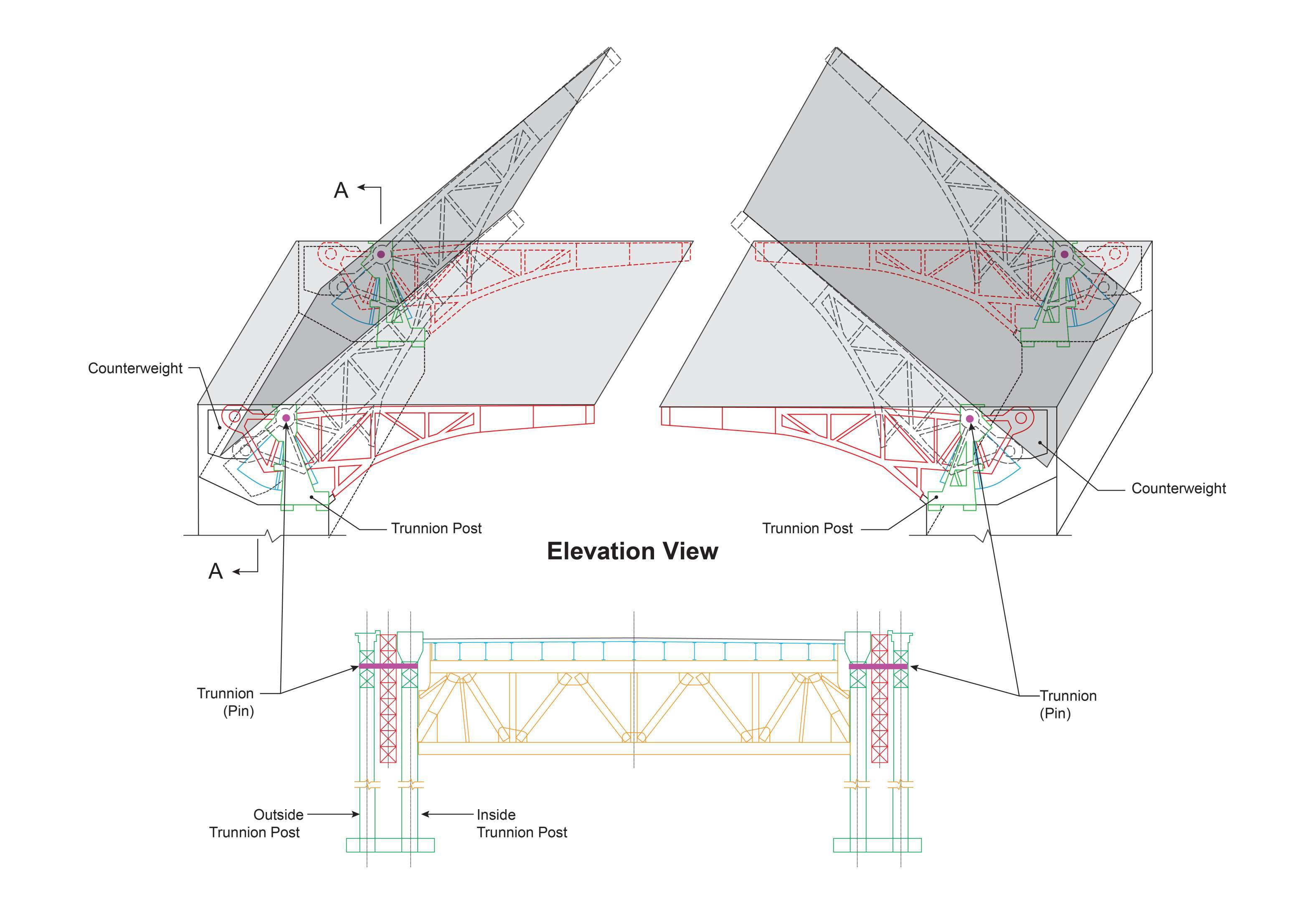 Schematic design of the 1932 bascule span of the Arlington Memorial Bridge over the Potomac River in Washington, D.C., in the United States.